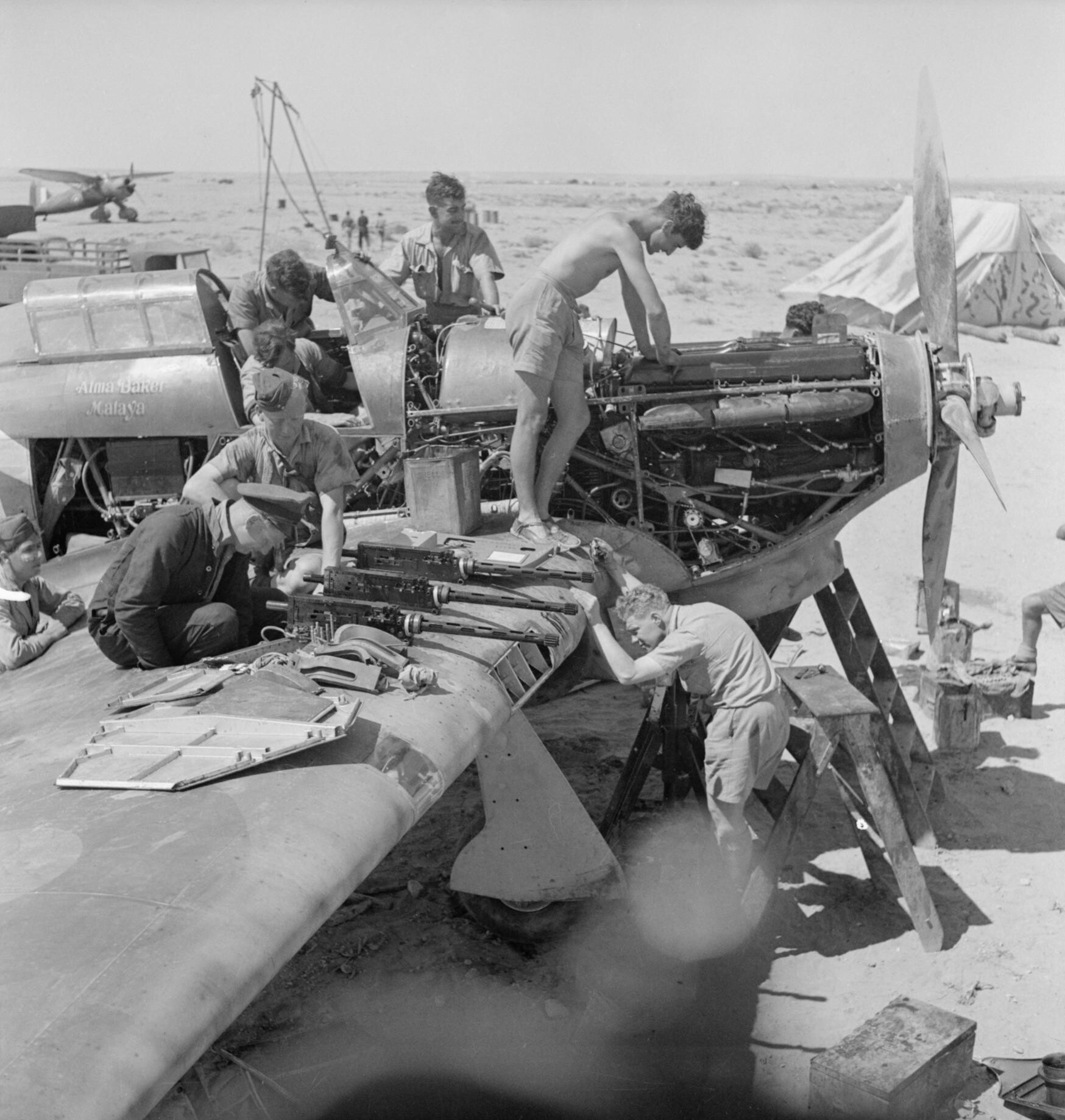 Groundcrew of No. 274 Squadron RAF overhaul Hawker Hurricane Mark I (V7780 "Alma Baker Malaya") at LG 10/Gerawala, Libya, during the defence of Tobruk.